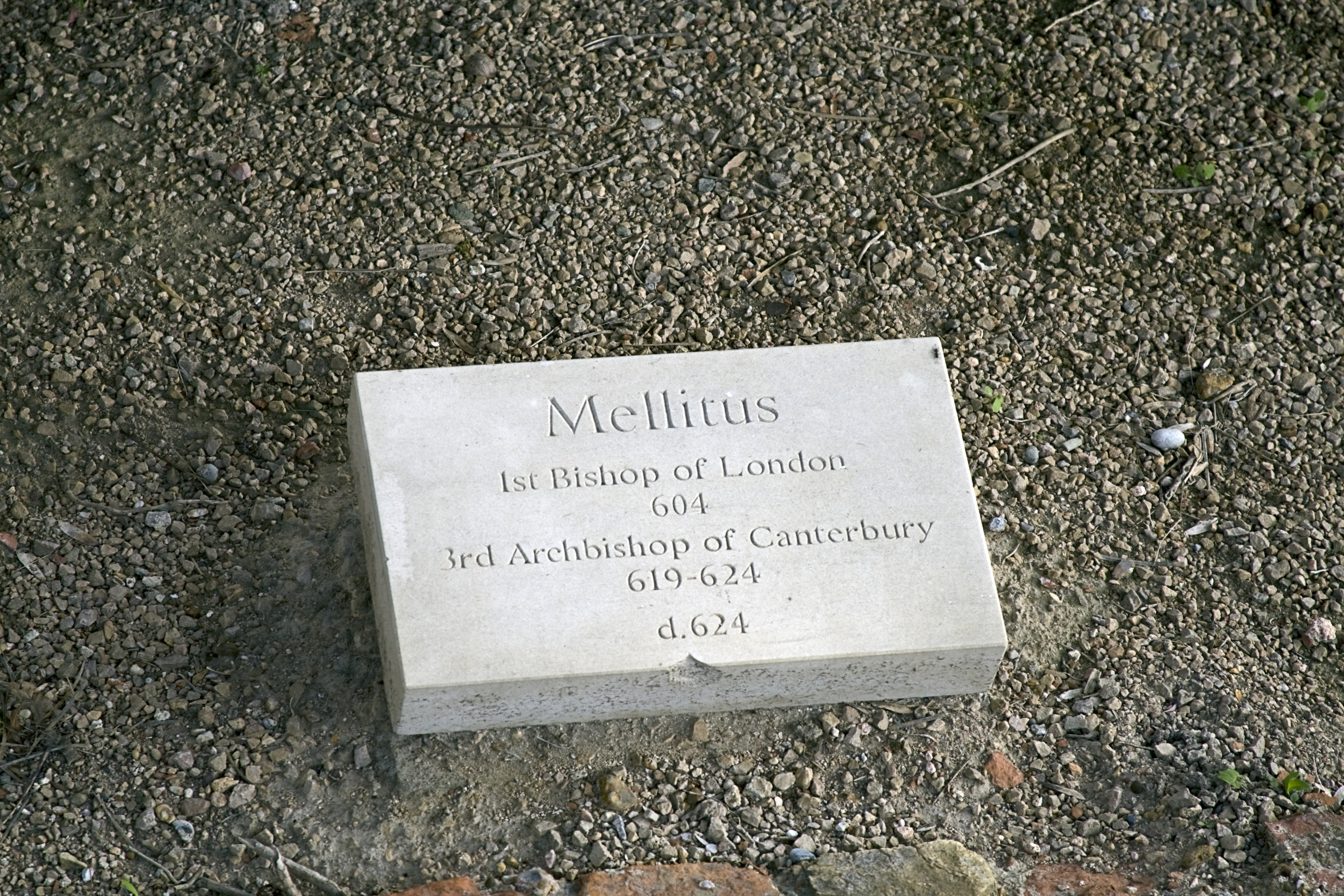 St Augustine's Abbey, Canterbury - gravestone of Mellitus, third Archbishop of Canterbury and first Bishop of London